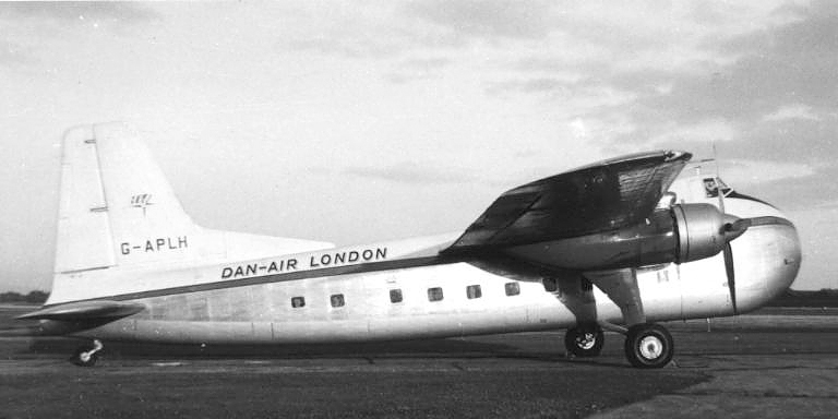 Bristol 170 Freighter 31 (G-APLH) of Dan Air at Manchester (Ringway) Airport